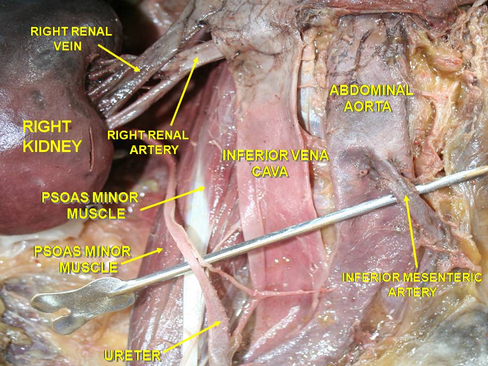 Anatomical dissections